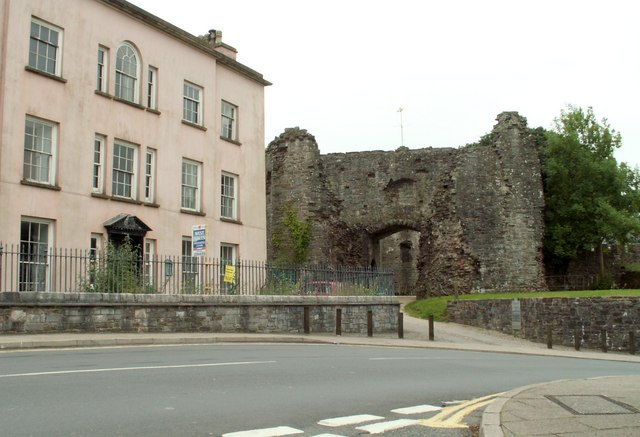 The entrance to Laugharne Castle The castle dates back to the 13th century.